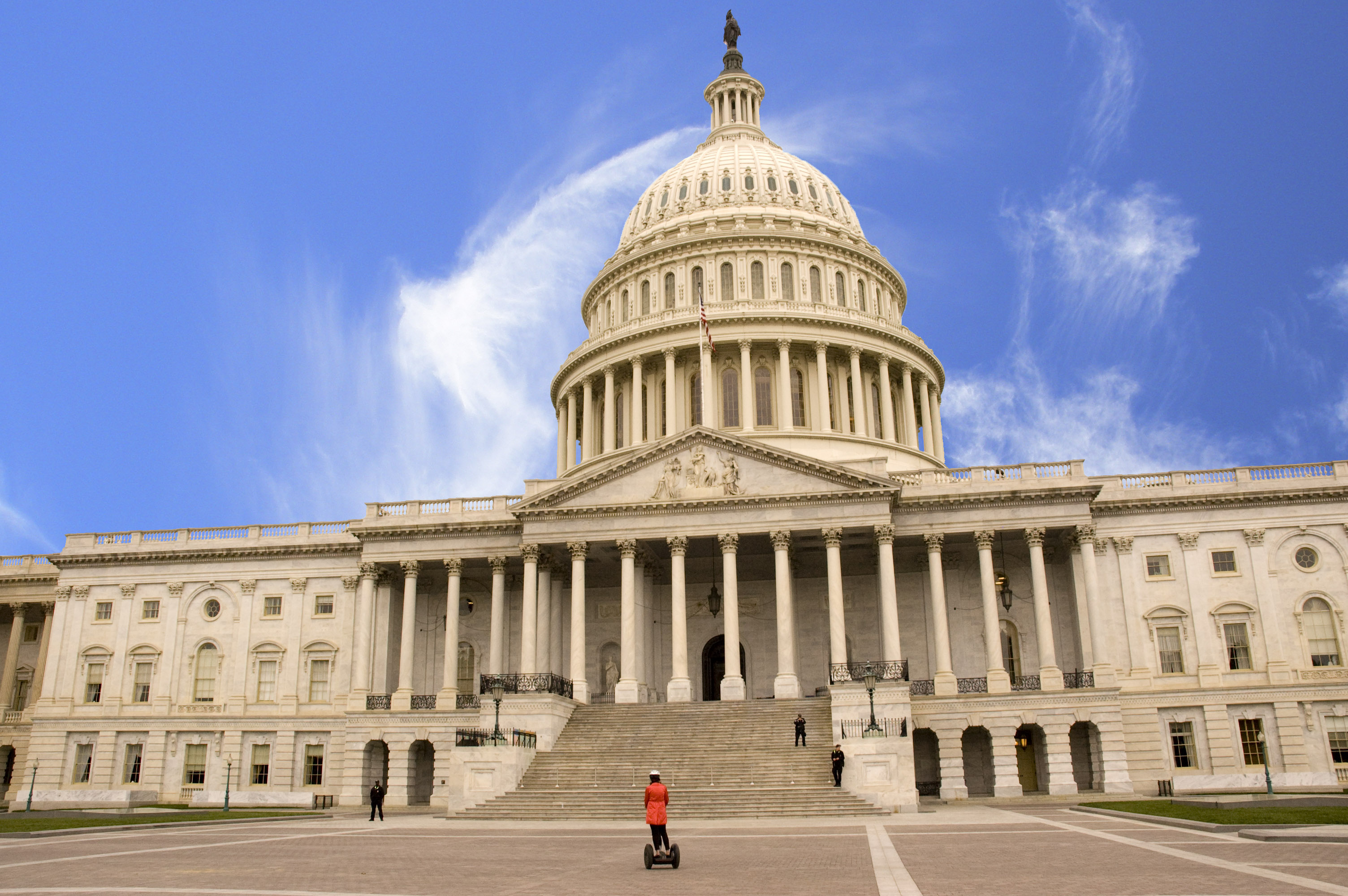 United States Capitol Building in Washington, DC - Segway Rider